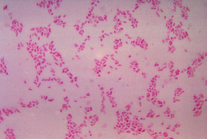 This micrograph depicts Bacteroides fragilis ss. vulgatus bacteria cultured in blood agar medium for 48 hours. – Gram-negative B. fragilis, though a commensal bacteria that normally lives in the human gastrointestinal tract this organism can become pathogenic under circumstances involving disruption of the normal intestinal mucosa such as trauma, or surgery. (original description of the image provider)